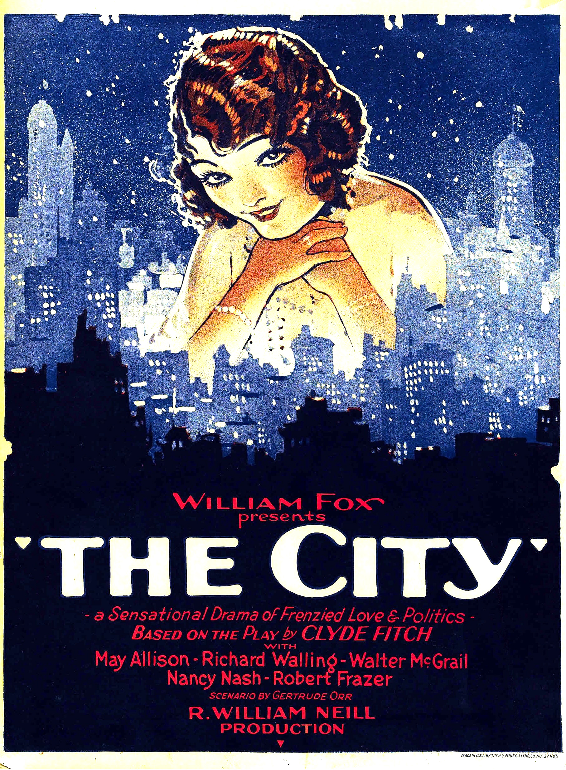 Poster for the American film The City (1926) with Nancy Nash.